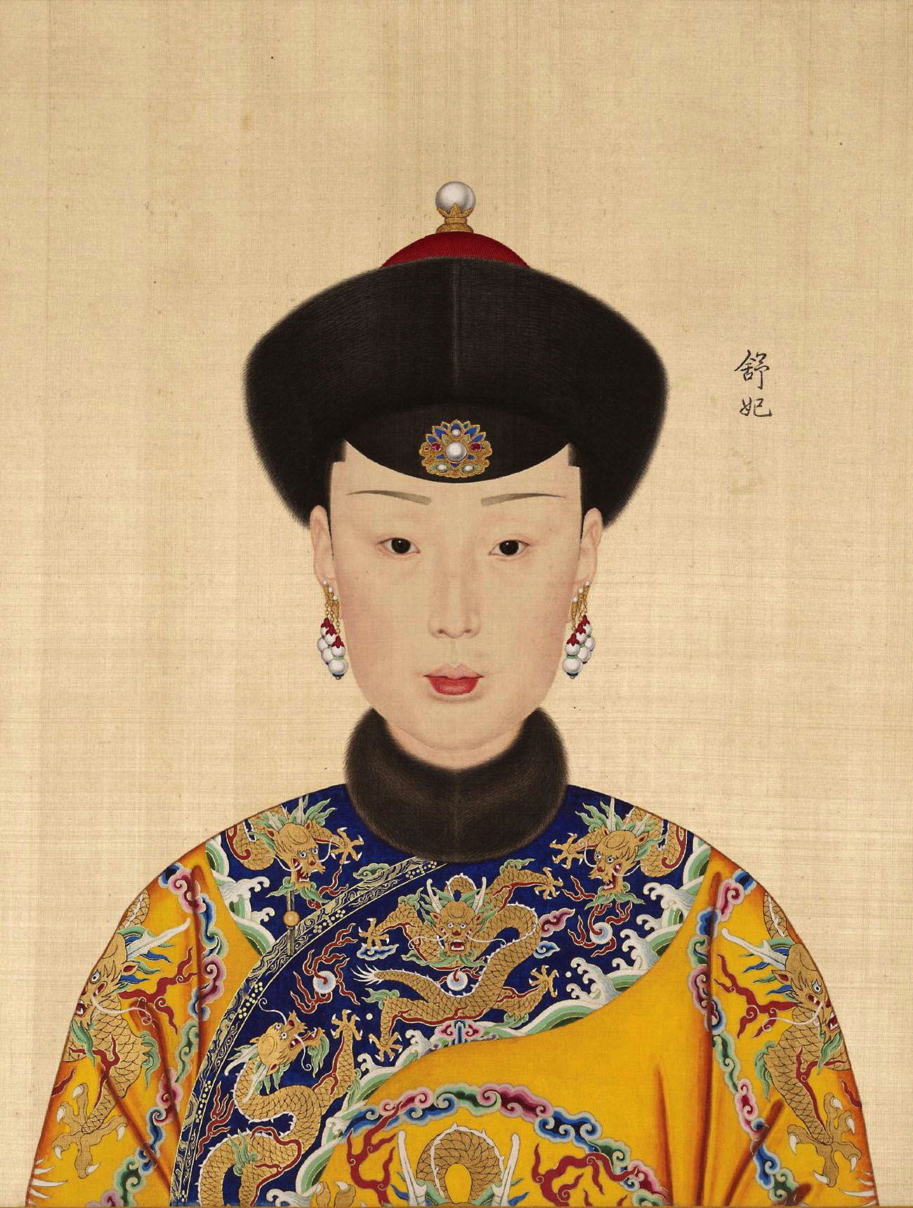 Part of the painting Qianlong Emperor and His Consorts, features the Consort Shu (舒妃) of Qianlong Emperor.